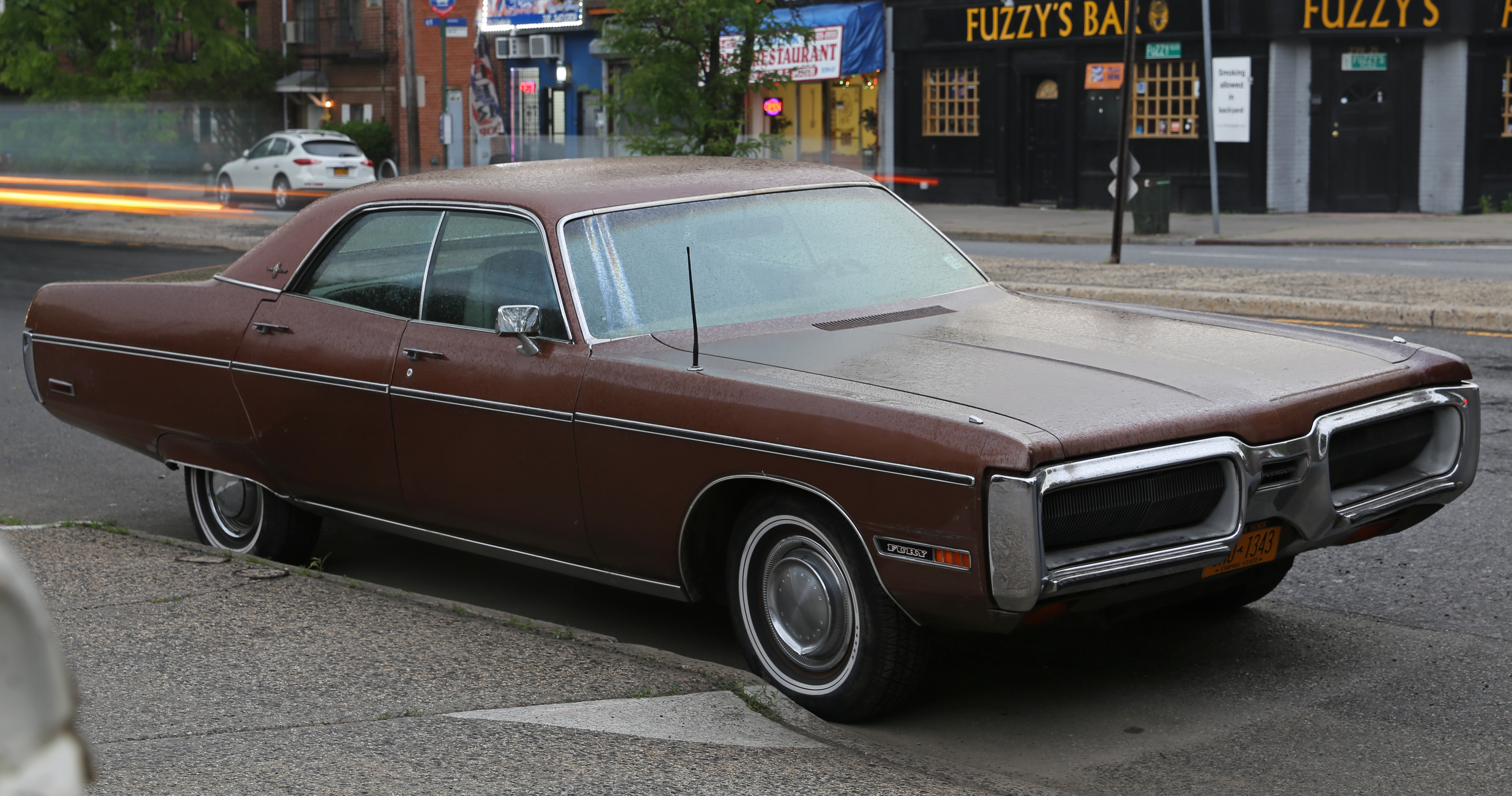 1972 Plymouth Fury Gran Sedan four-door hardtop with the 2-barrel 360 ci V8 engine. Built in Newark, DE.